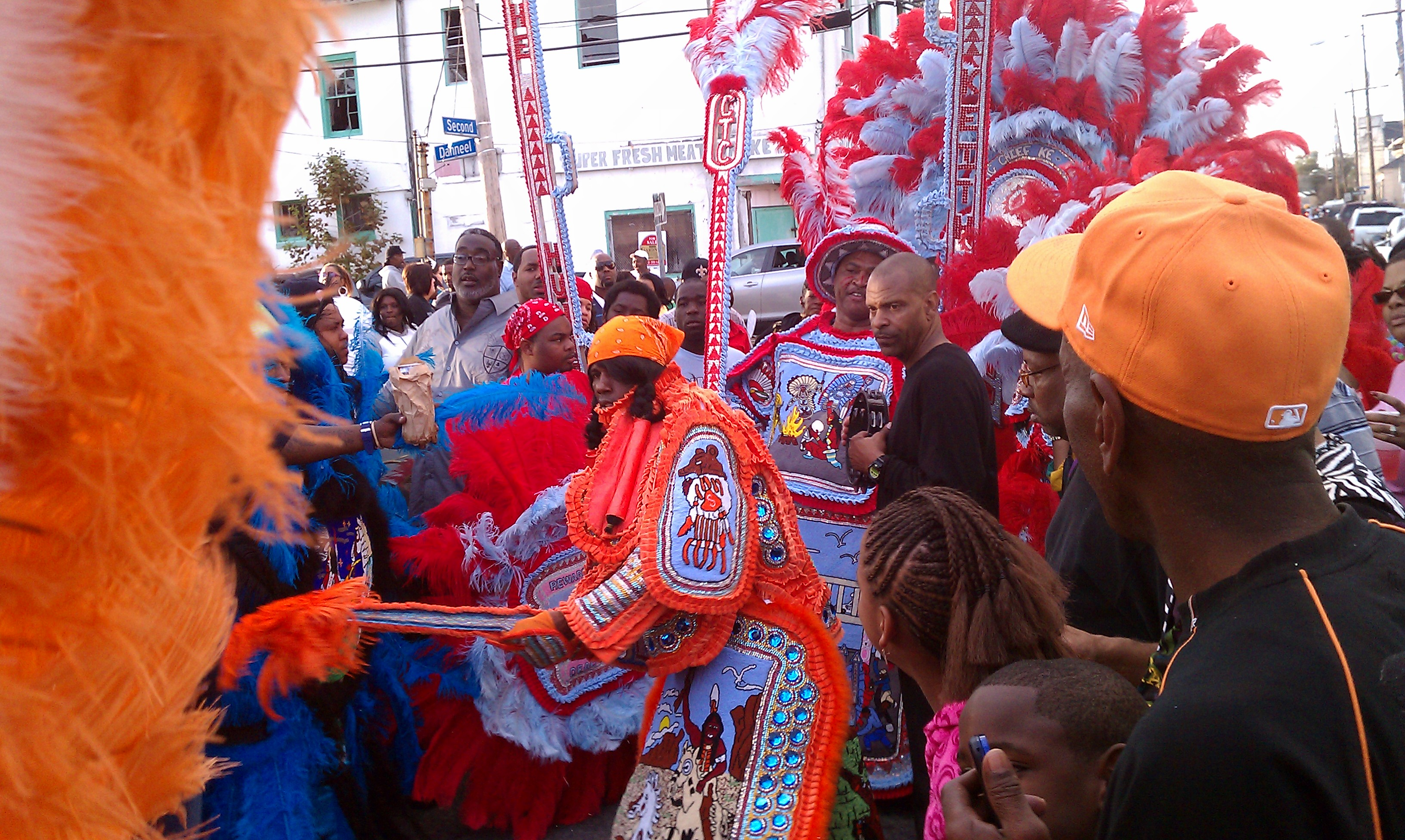 Uptown encounter of Mardi Gras Indian Chiefs